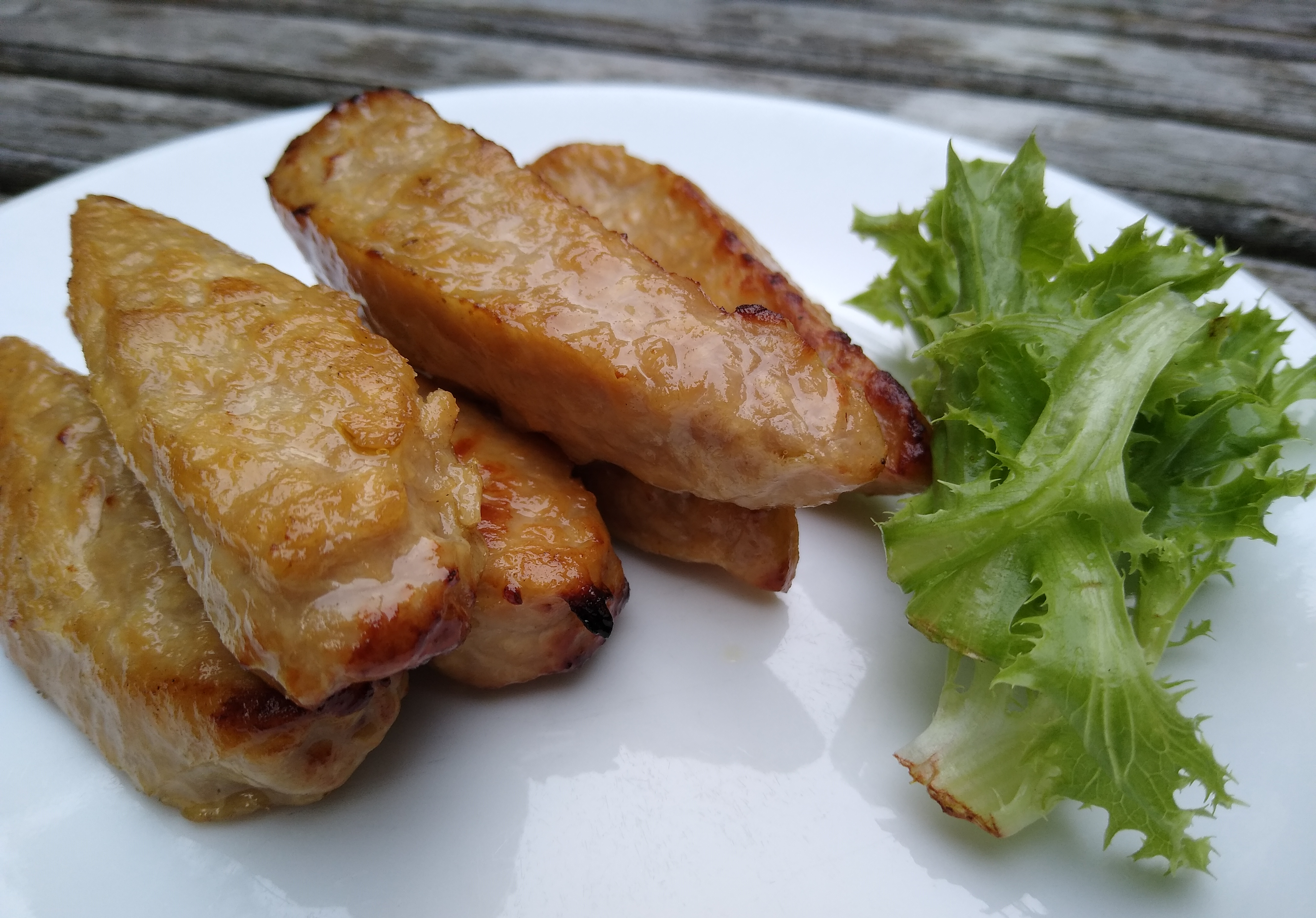 One 170-gram pack of vegan Lightlife "Smart Tenders" plant-based chicken, sauteed with olive oil and presented with a garnish.